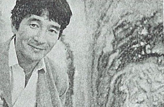 Sadamasa Motonaga was a Japanese painter.